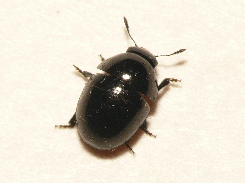 Phalacrus fimetarius. Location: The Netherlands - Rhenen - Blauwe Kamer